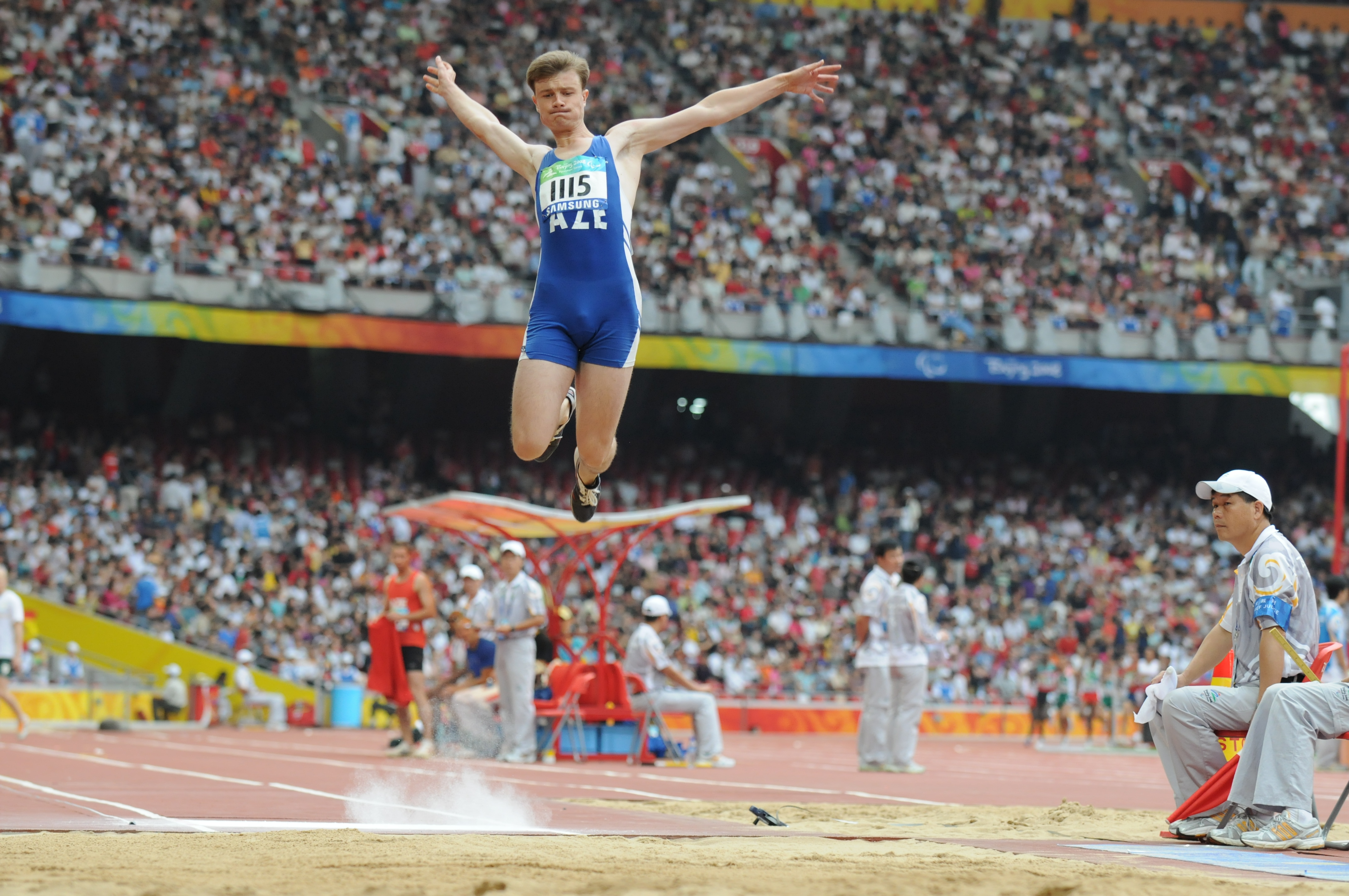 Oleg Panyutin at the 2008 Summer Paralympics